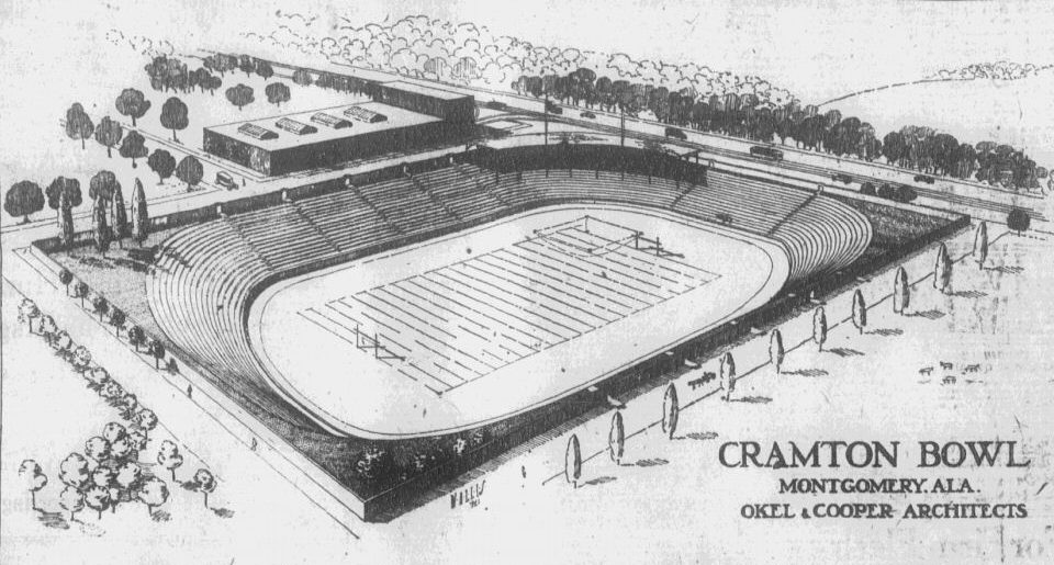 Artist's sketch of Cramton Bowl, 1921. From "How Crampton Bowl Will Look after it is Completed", Montgomery Advertiser, November 20, 1921.